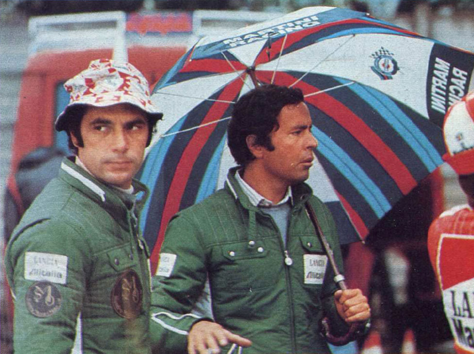 From left to right: Lancia-Alitalia's driver Sandro Munari and team manager Cesare Fiorio at the 1975 Automotive Tour of Italy.